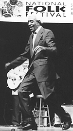 NEA National Heritage Fellow James "Jimmy Slyde" Godbolt received the award for his tap-dancing prowess in 2006.